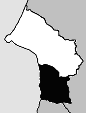 Location of Porto Covo parish in Sines municipality. Map created by Brian Boru in December 2005.